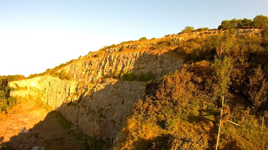 The disused limestone quarry of Warton Crag, looking north west. The site is now a nature reserve and is popular with climbers and walkers.